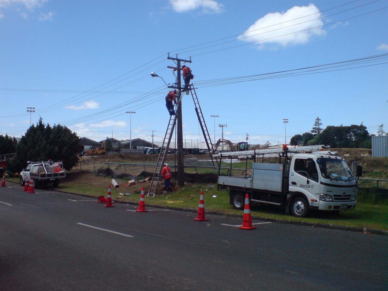 Vector linemen working in Henderson, Auckland, New Zealand. Looking east.